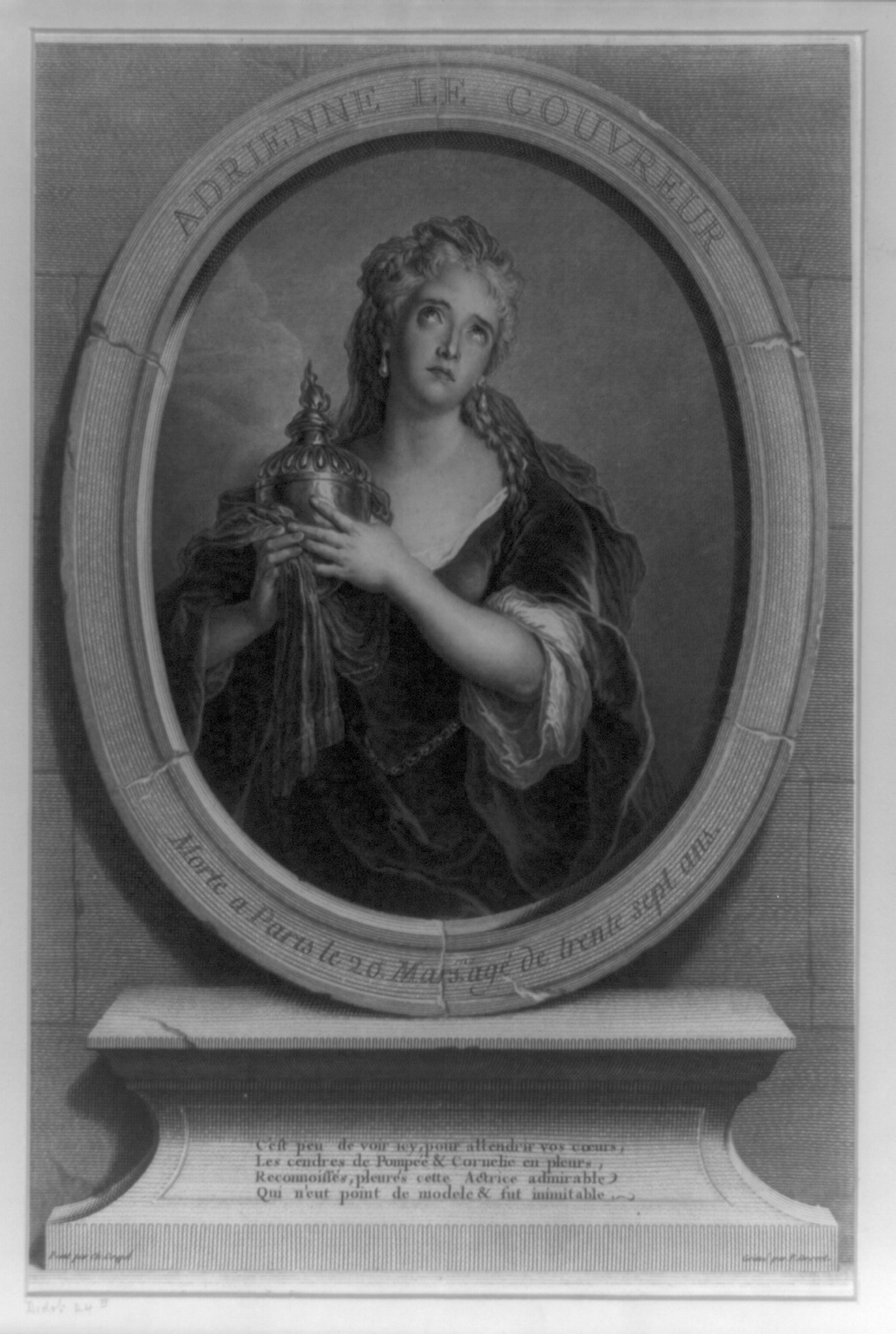 Adrienne Le Couvreur in the role of the tragic Cornelia in Pierre Corneille’s The Death of Pompey (1642). French actress, portrayed in the role of Cornelia, half-length portrait holding jar.